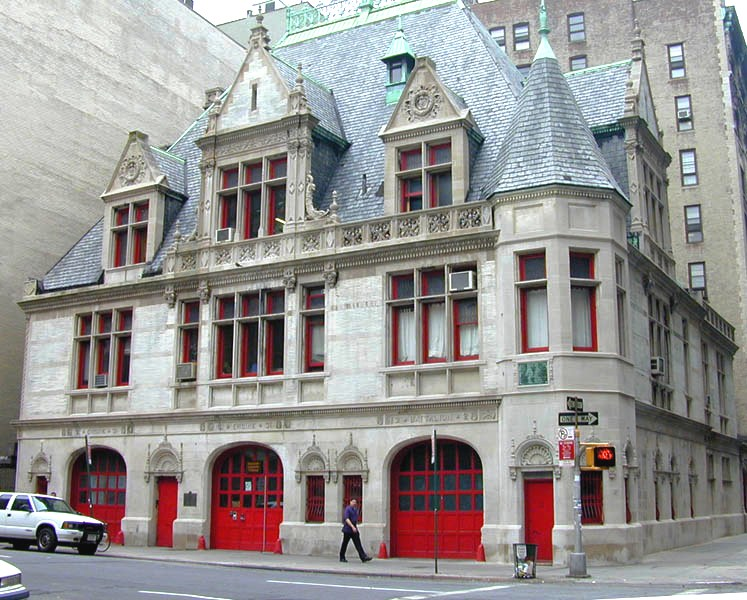 The DCTV Firehouse building; home to New York's Downtown Community Television ([1]) and Pacifica Radio's [Democracy Now!] radio and television news program.